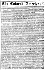 This is the cover of the newspaper The Colored American, dated March 4, 1837.